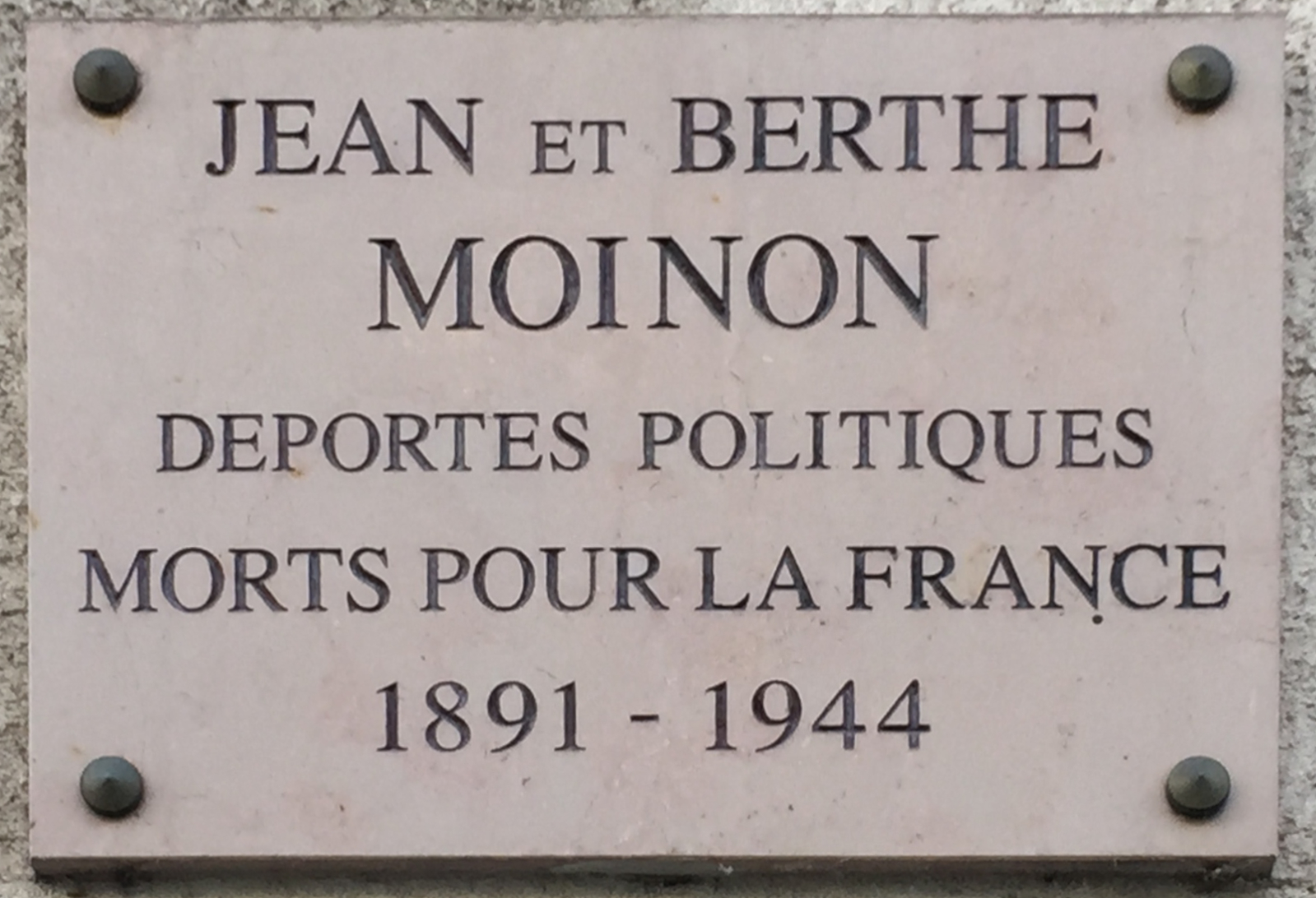 This photograph was taken with an iPhone 6